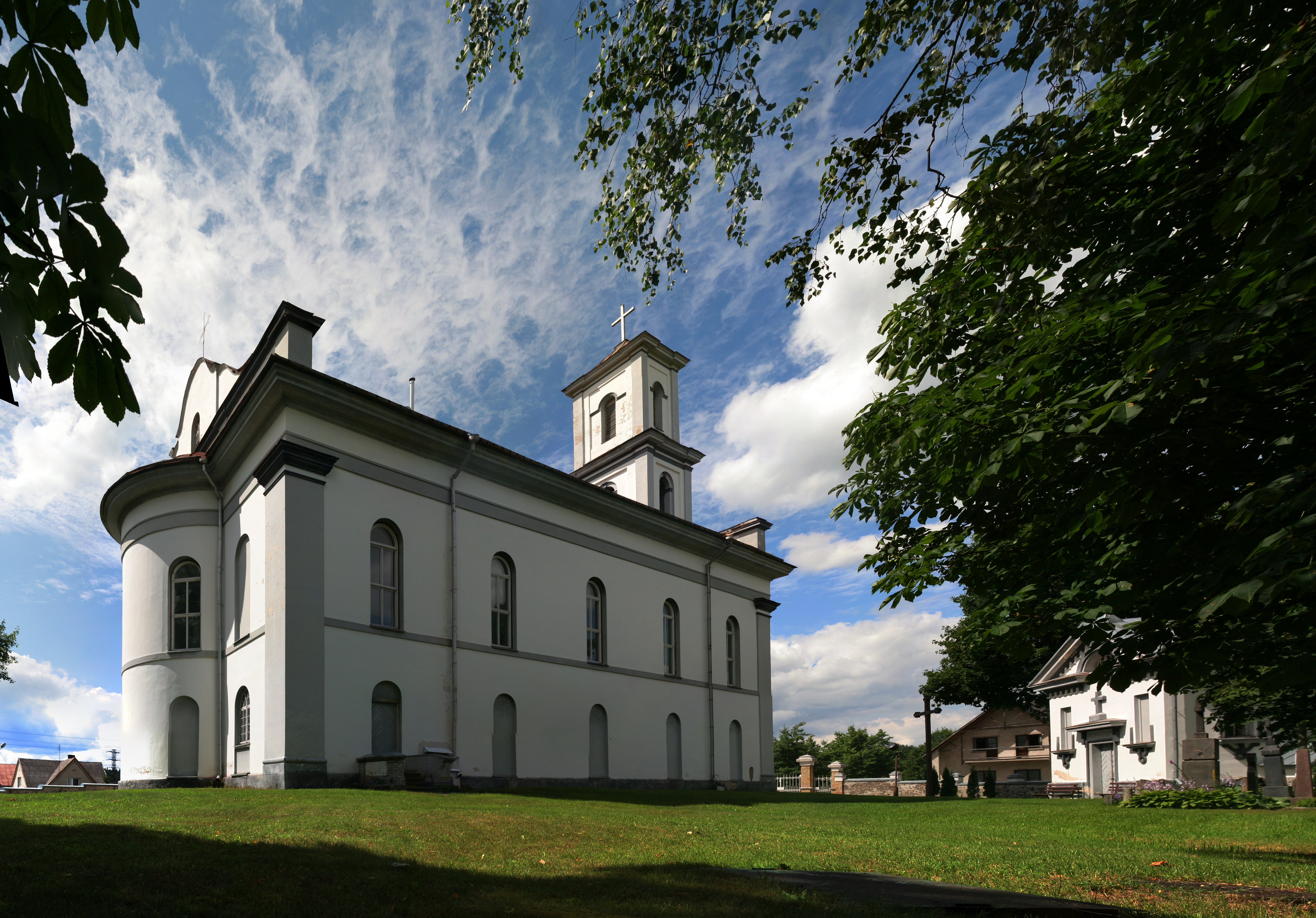 Churchyard of Nemenčinė